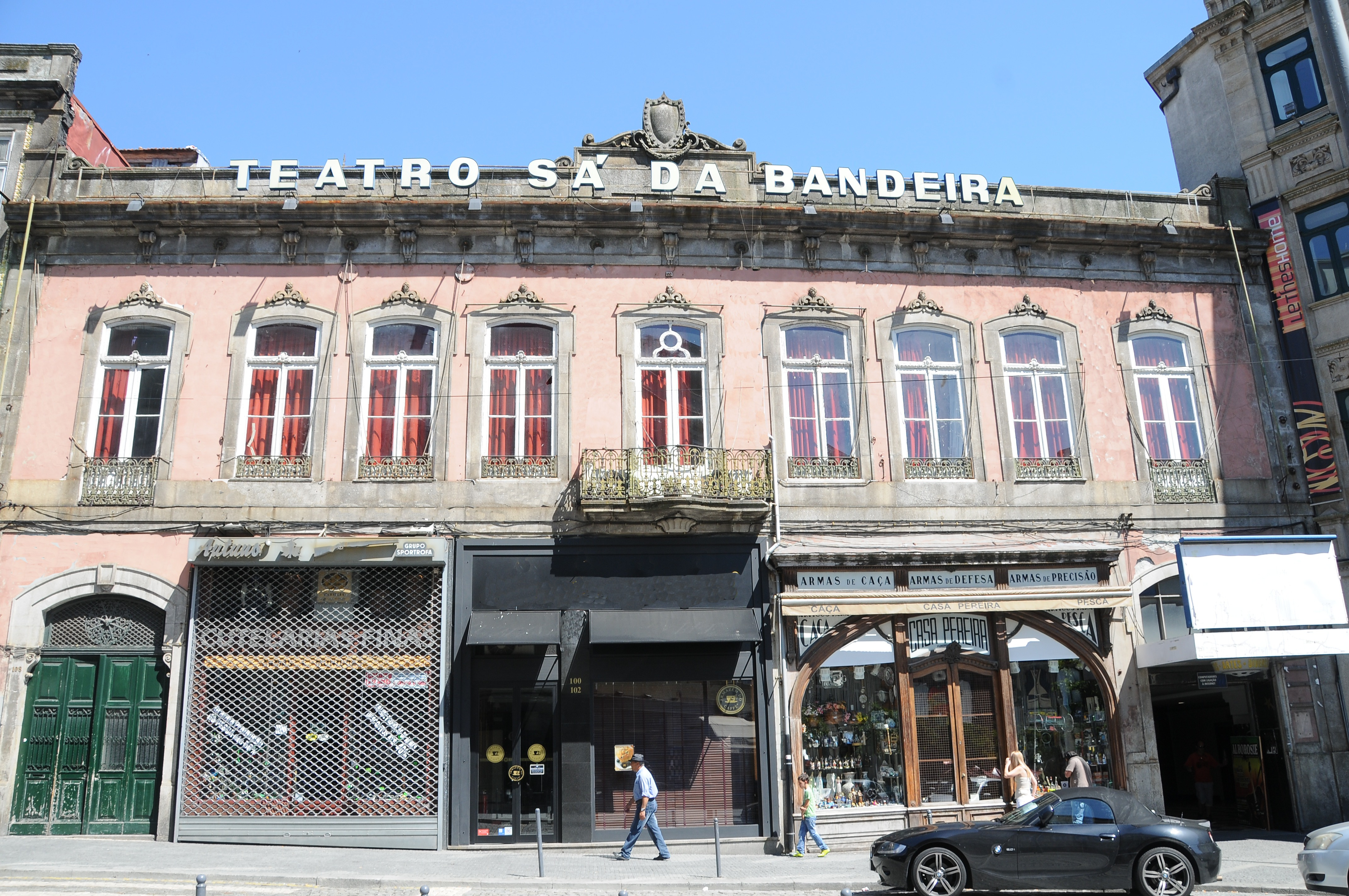 Sa da Bandeira Theatre, Oporto, Portugal